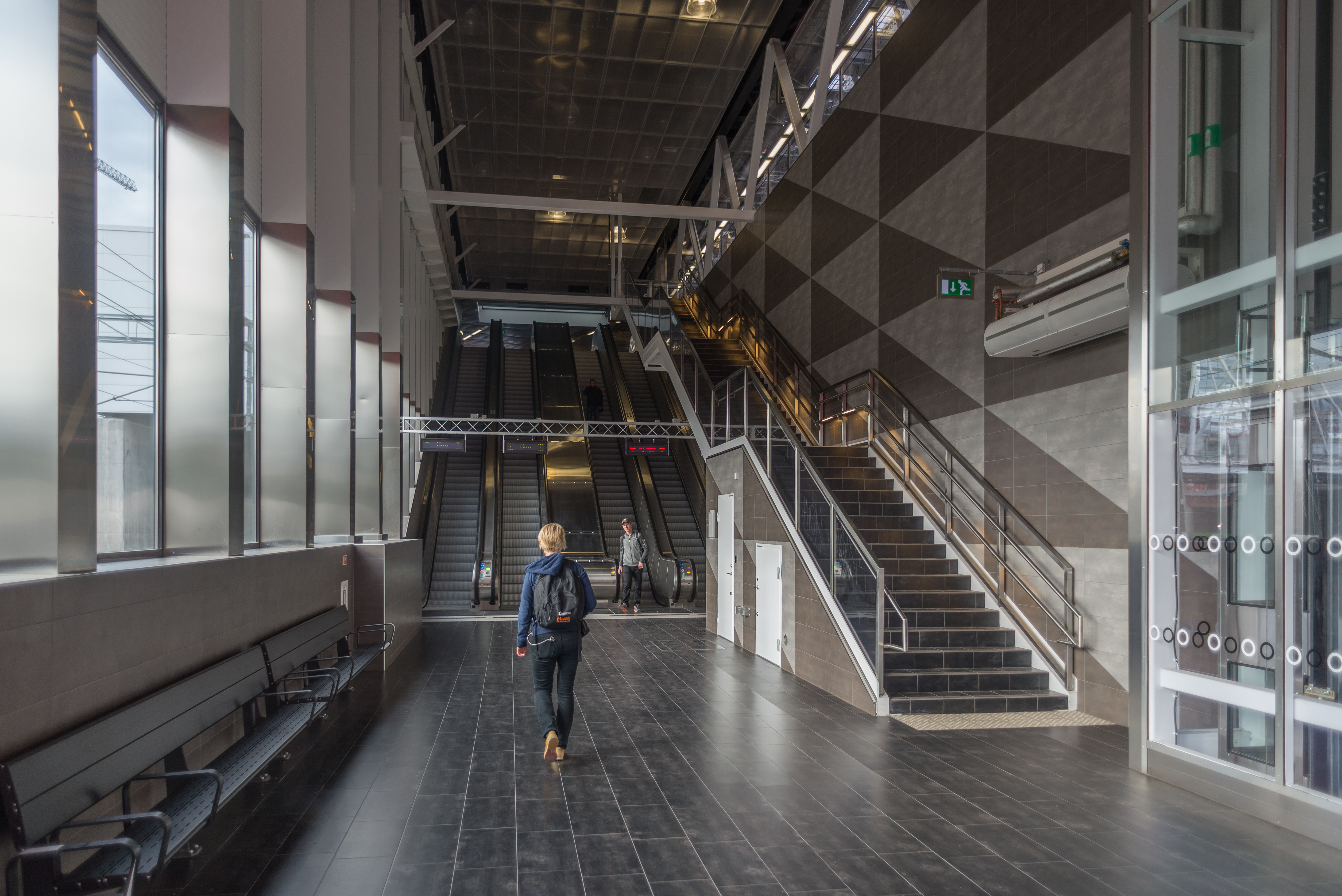 The new north entrance/exit to Solna station (a commuter train station in Solna, Stockholm), connecting the station to Arenastaden and the new Friends Arena.